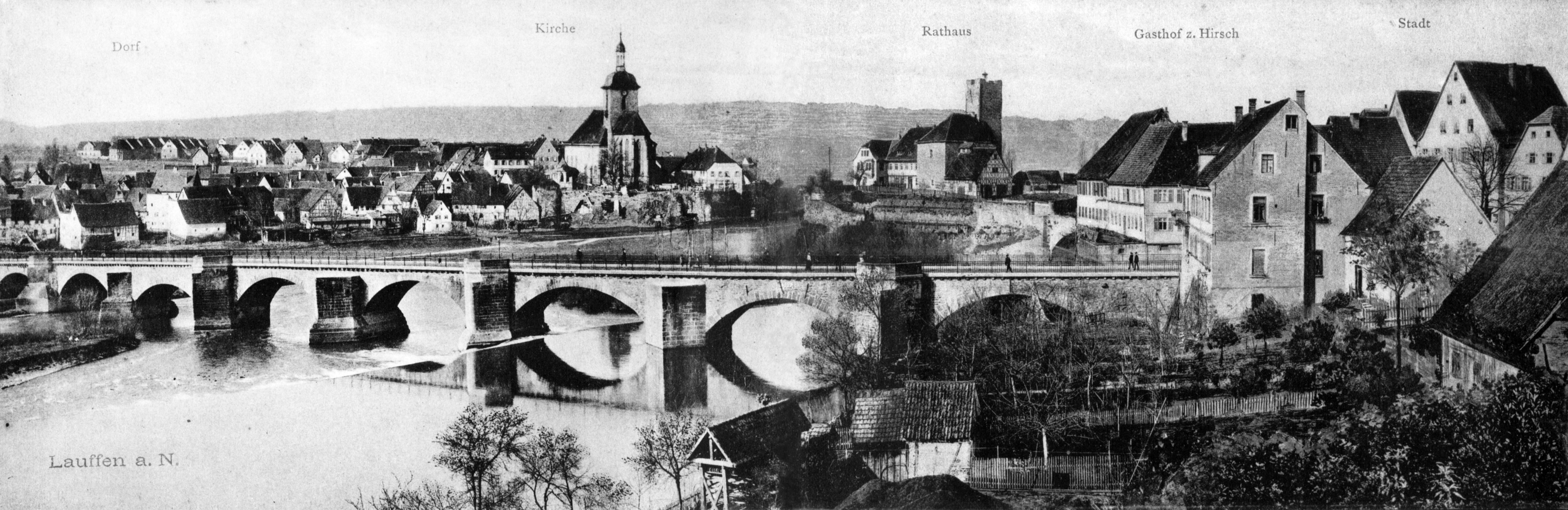 panoramic view of Lauffen am Neckar including the neckar bridge, church of St. Regiswindis and castle